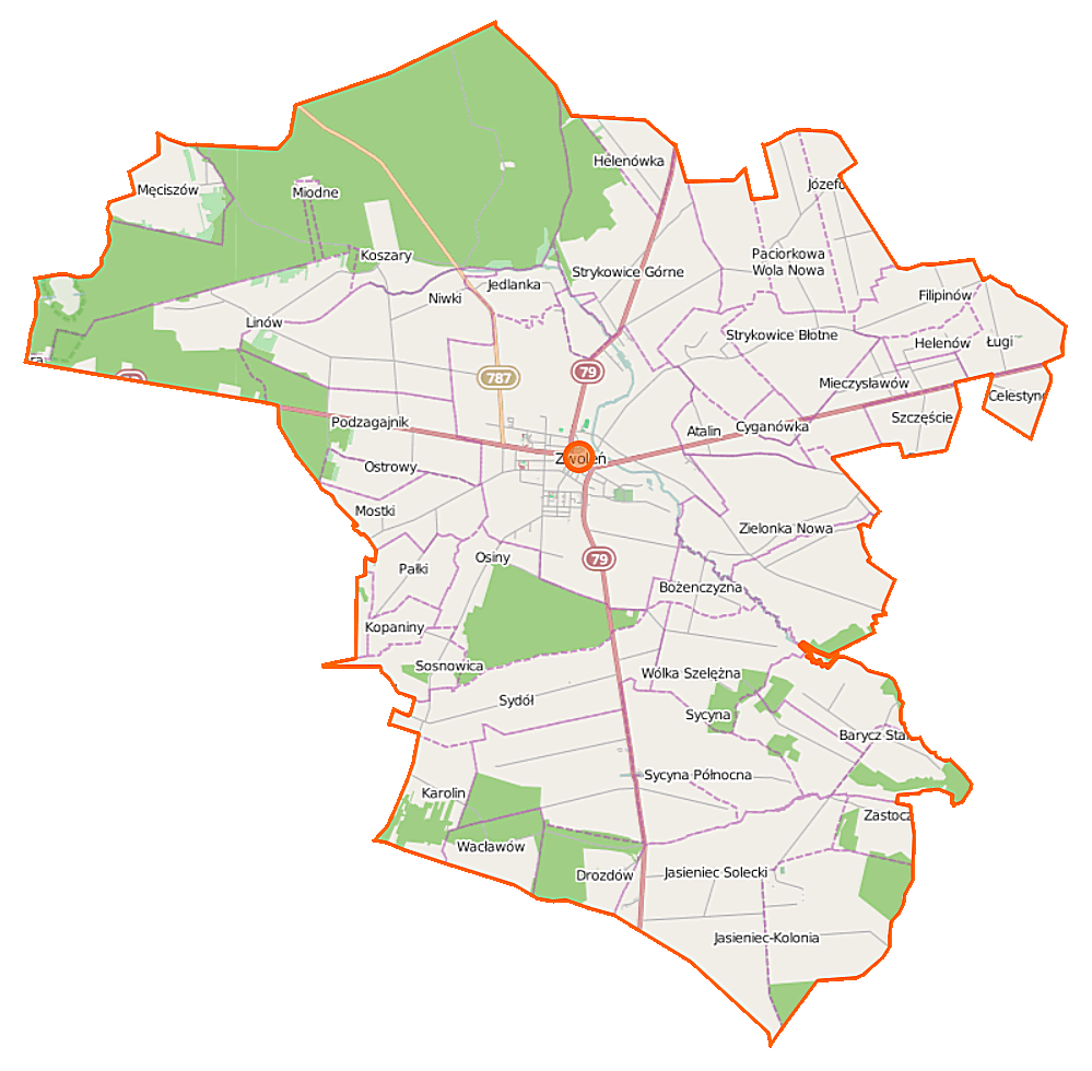 Map of Gmina Zwoleń, Poland This map of Zwoleń (gmina) was created from OpenStreetMap project data, collected by the community. This map may be incomplete, and may contain errors. Don't rely solely on it for navigation. Border coordinates51.428821.4388←↕→21.713451.2606